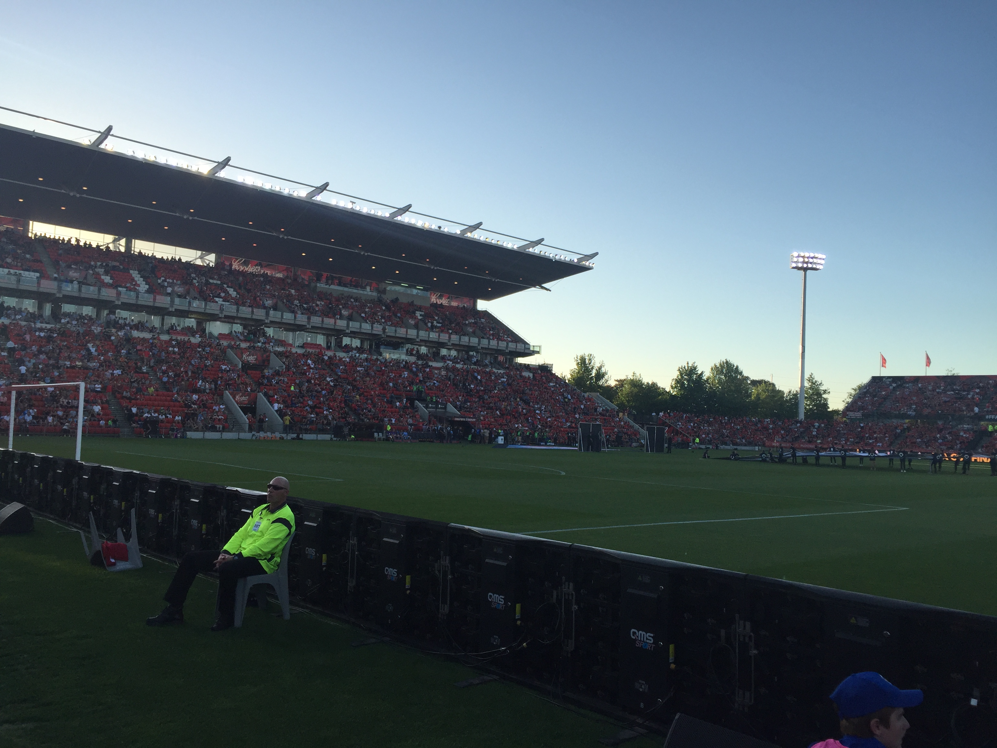 View of Hindmarsh (Coopers) Stadium on 23 October 2019, pre-match FFA Cup Final